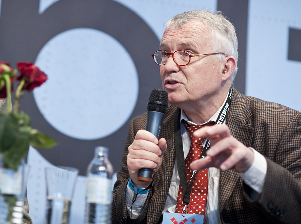 Horst Pöttker auf der re:publica 2011 zum Thema Leaking Transparency (cc) Jonas Fischer/re:publica